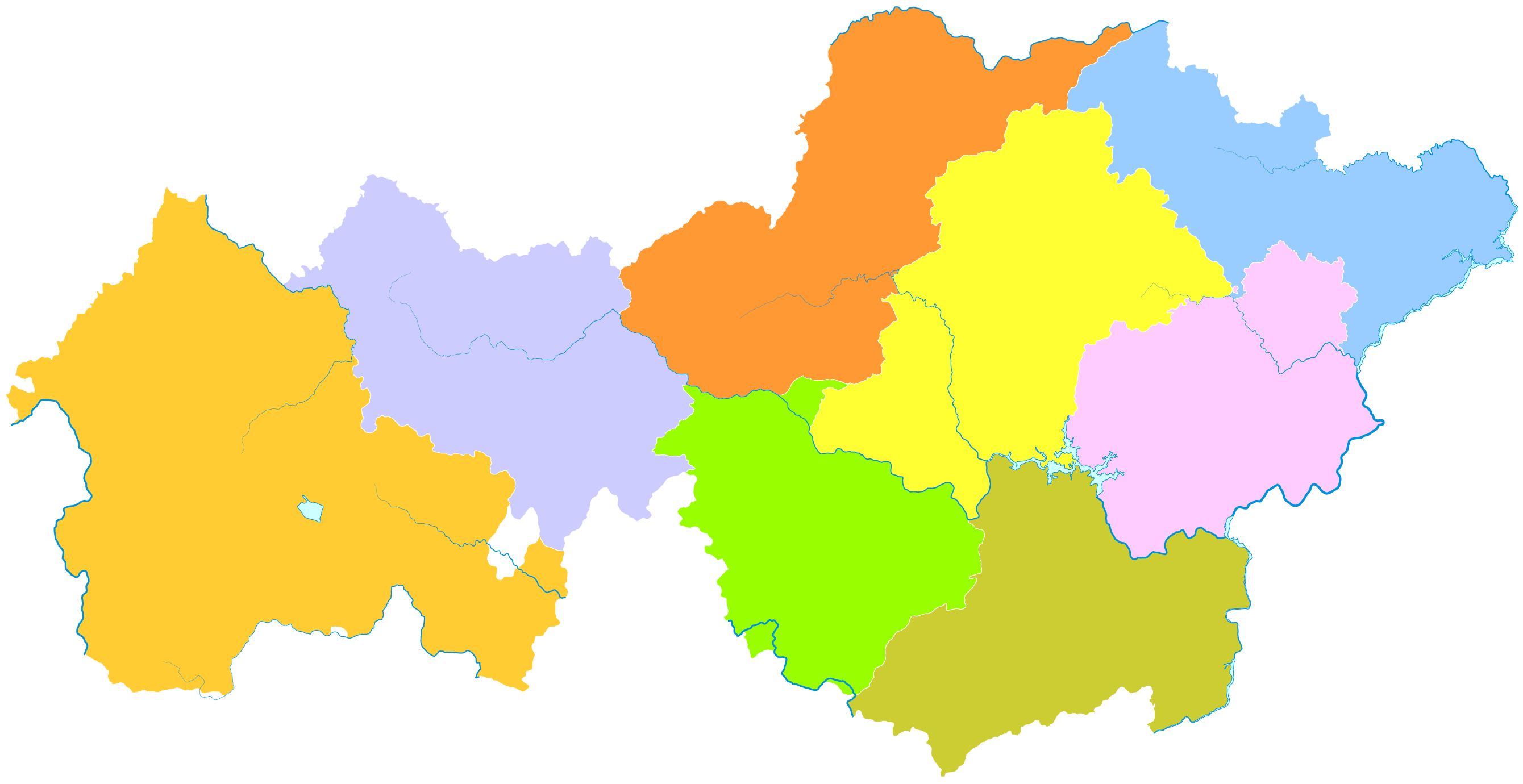 administrative division of Bijie City, Guizhou, China